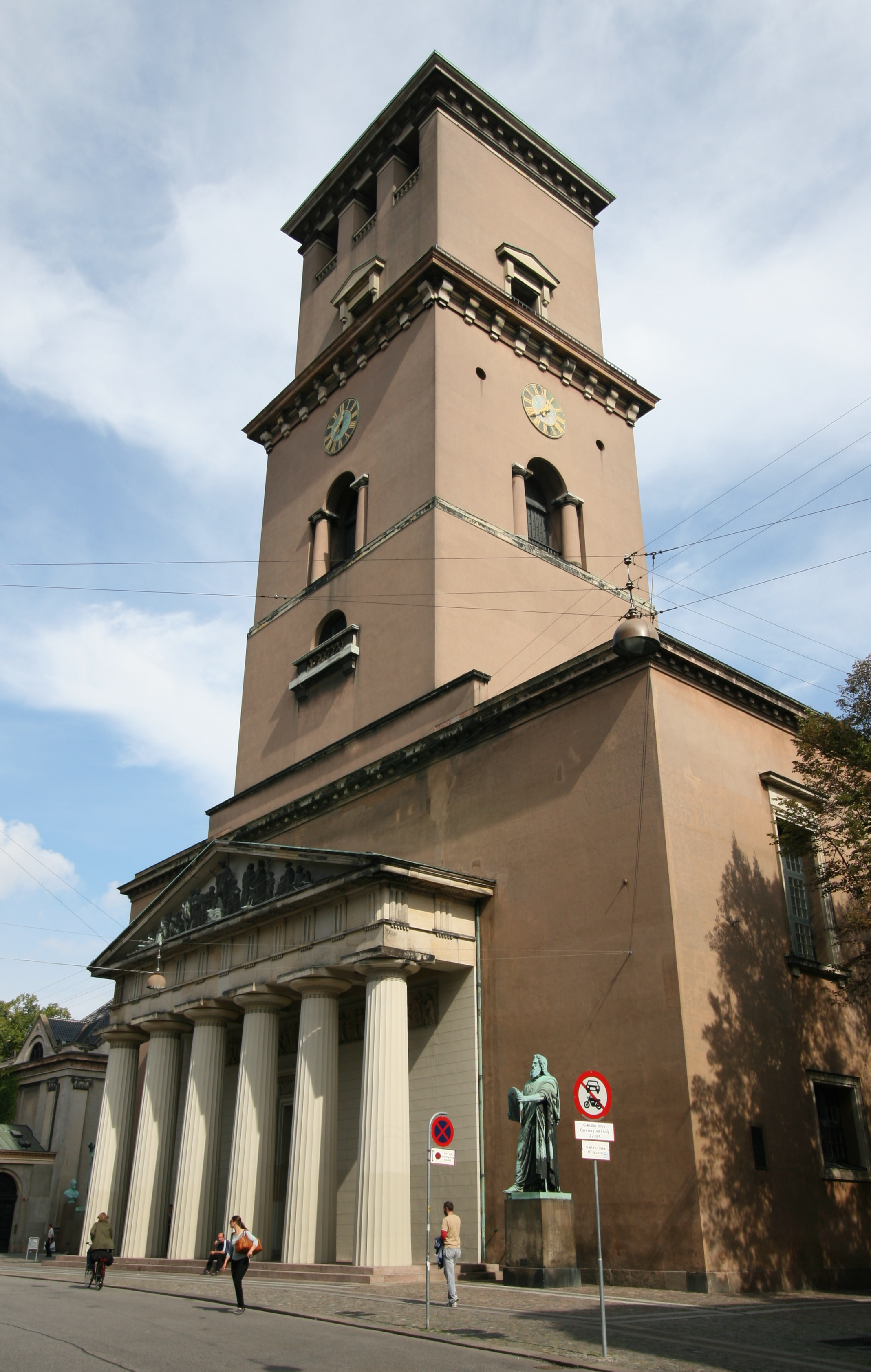 Vor Frue Kirke in Copenhagen, Denmark. The cathedral of Copenhagen. Belfry.